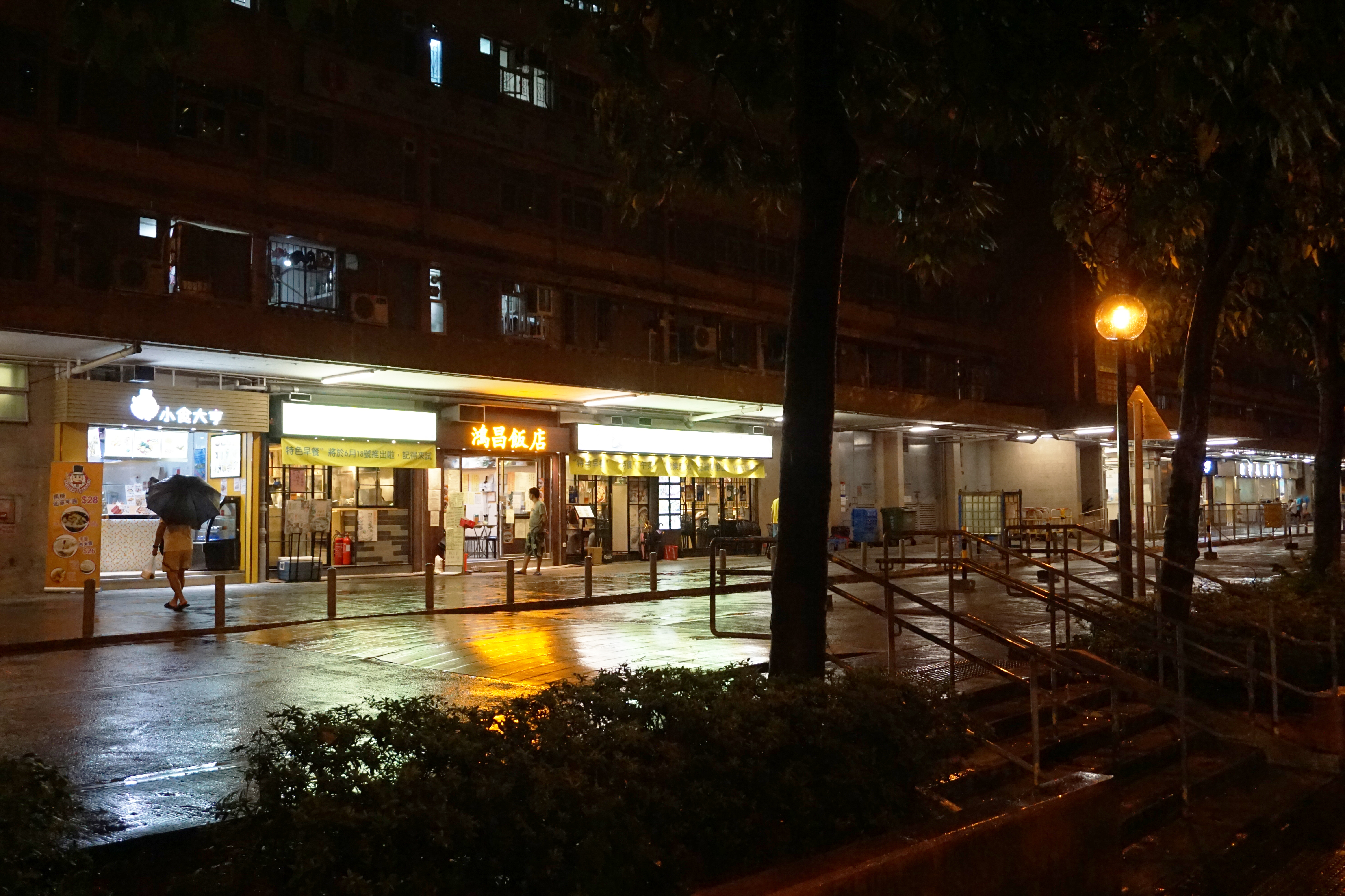 Lung Hang Estate in Tai Wai, Hong Kong.